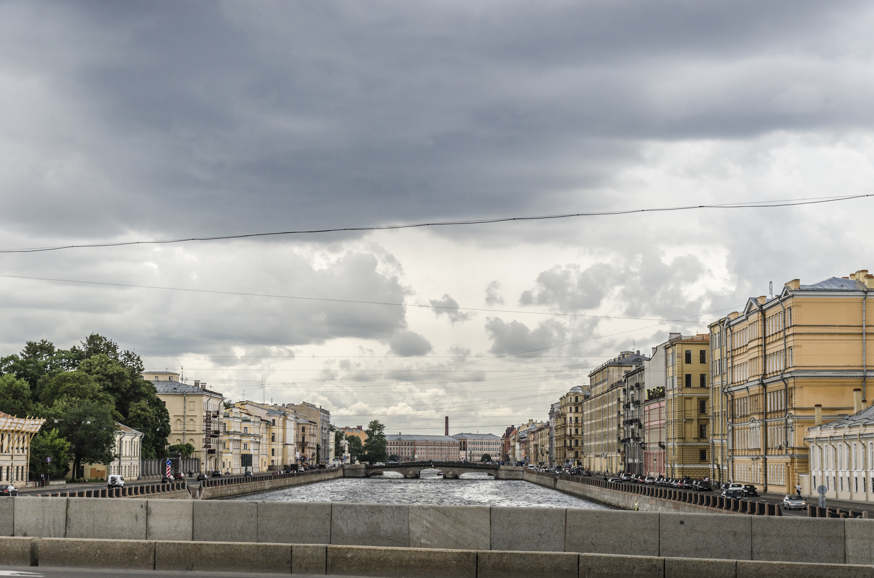 Fontanka river in Saint Petersburg, Russia. View from Obukhovskiy bridge.